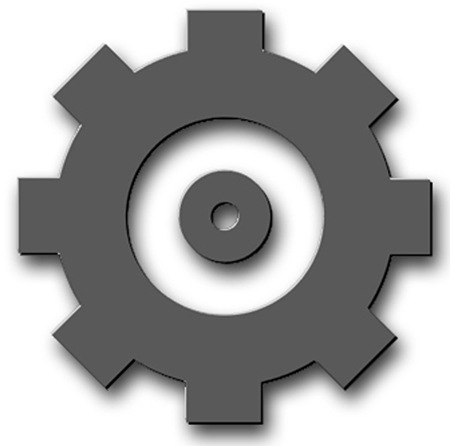 US Navy Engineman (EN). A gear.